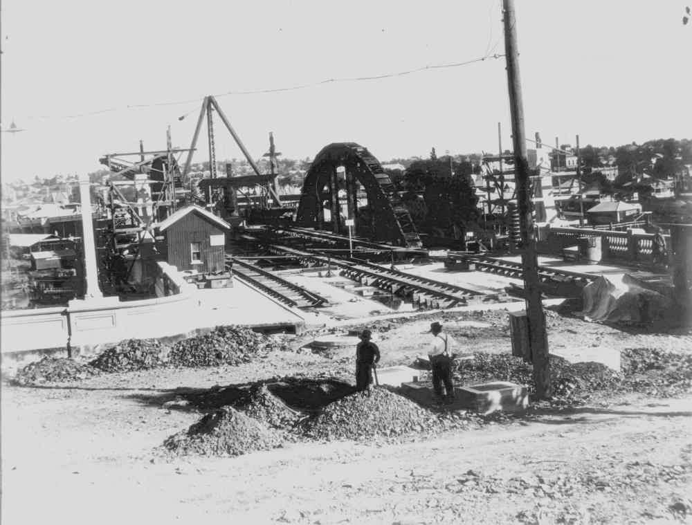 Construction of the William Jolly Bridge, Brisbane, ca. 1931 Men working on what appears to be the north end of the William Jolly Bridge which linked North Quay on the north bank of the Brisbane River, to Grey Street on the south bank. The bridge opened to traffic on 30 March 1932, known then as the Grey Street Bridge. 'Amongst the interesting features of the Bridge, the length of which is 1634 feet, are the three main arches over the river, of 238 ft. centres, each rib consisting of structural steel fabricated under a sub-contract let by Messrs. M. R. Hornibrook Ltd. to Messrs. Evans, Deakin and Co., Brisbane. This steelwork was designed to support the concrete during construction without falsework.' (Information taken from: Souvenir : official opening of Grey Street Bridge, 1932).